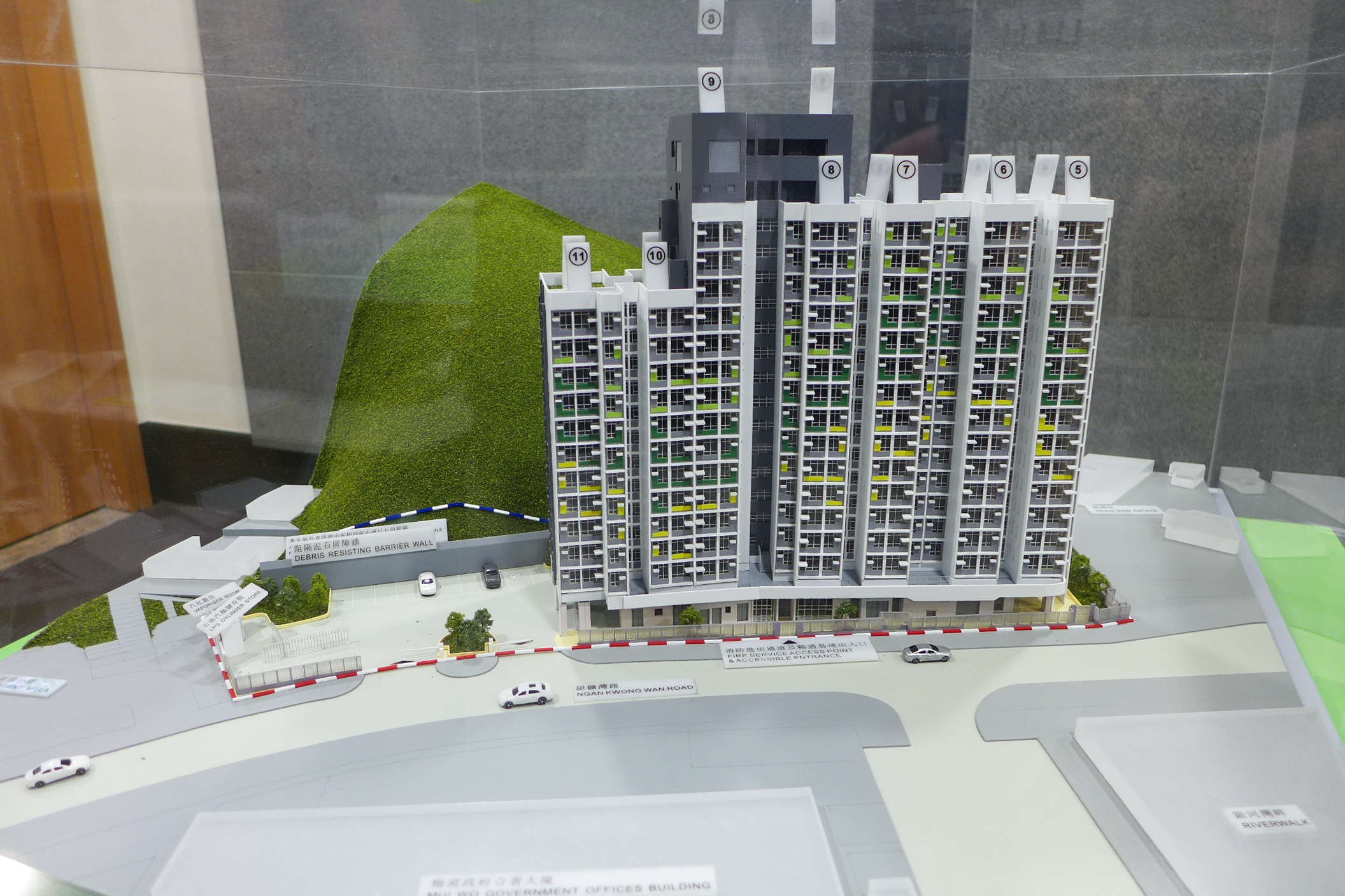 Ngan Wai Court Model